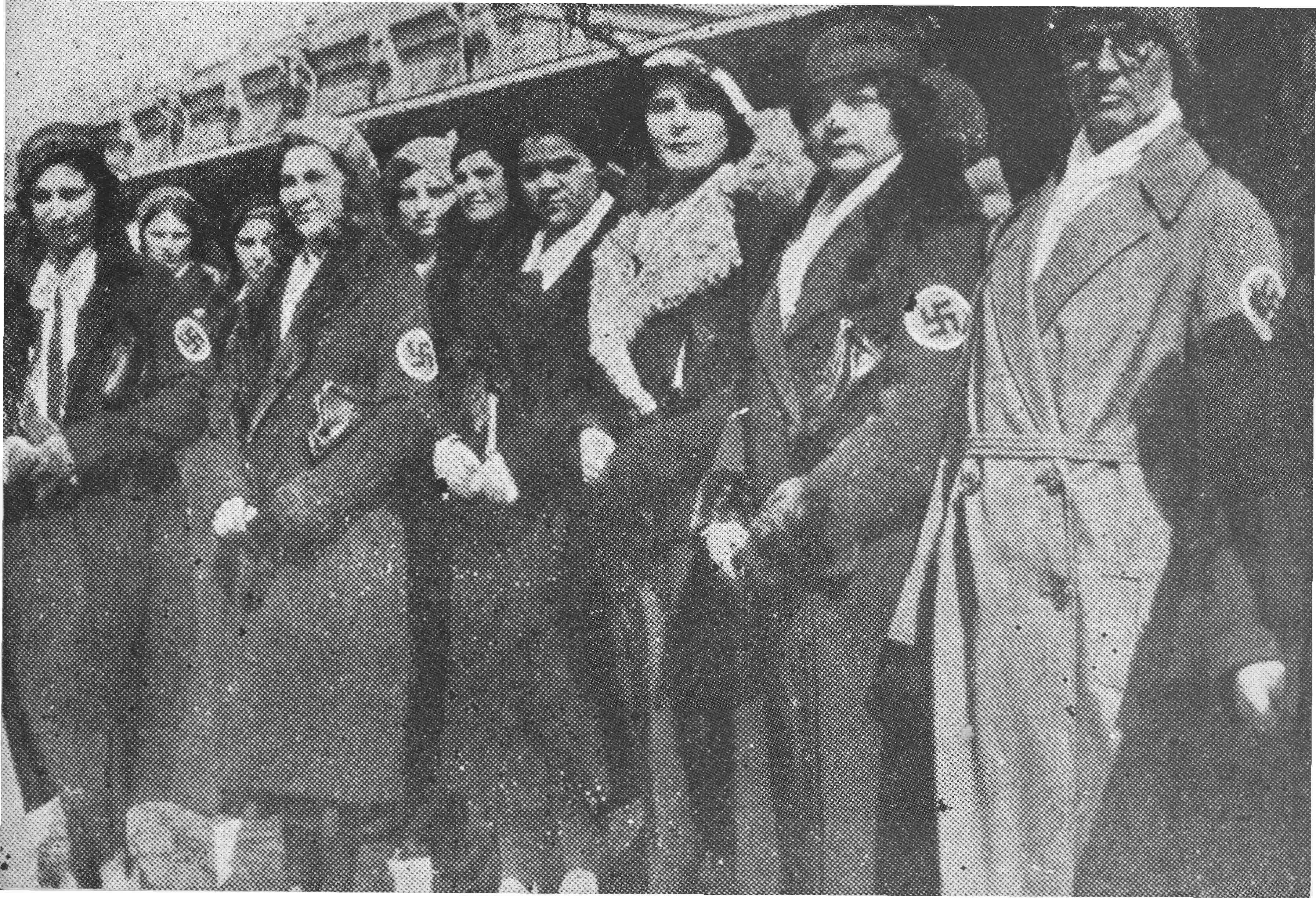 Members of the Russian Women's Fascist Movement line up in honor of A. A. Vonsyatsky at Harbin Railway Station